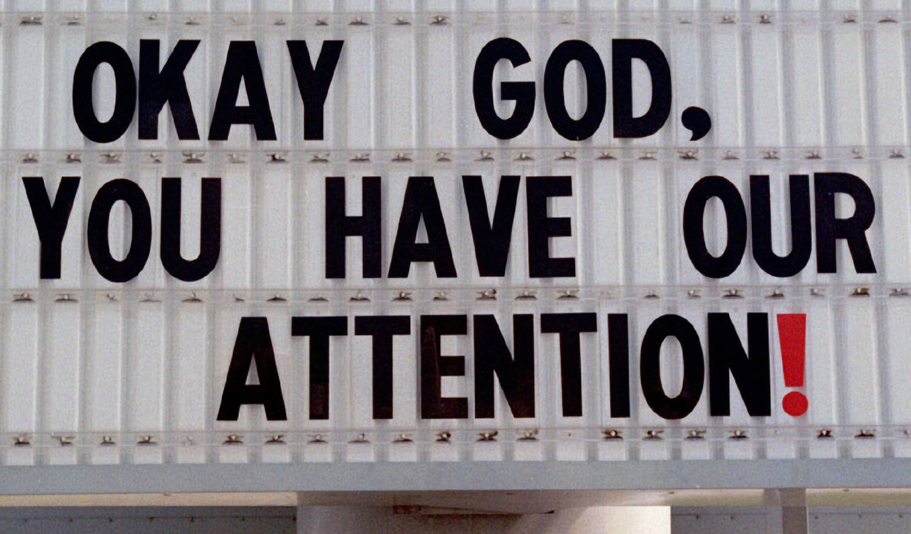 unrecorded, NC, September 6, 1996 -- Residents put up a sign after Hurricane Fran sweeps through the region, causing millions of dollars in damages. Photo by Dave Gatley/ FEMA News Photo